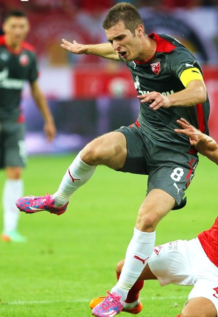 Darko Lazovic